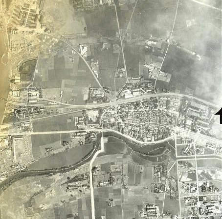 Sankaiseki (1944-45)